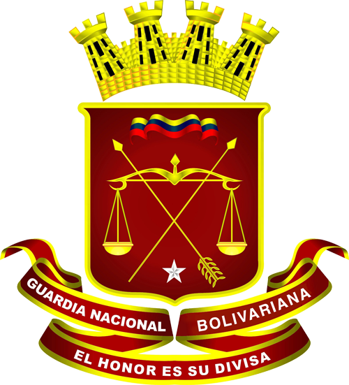 Seal of Venezuelan National Guard.